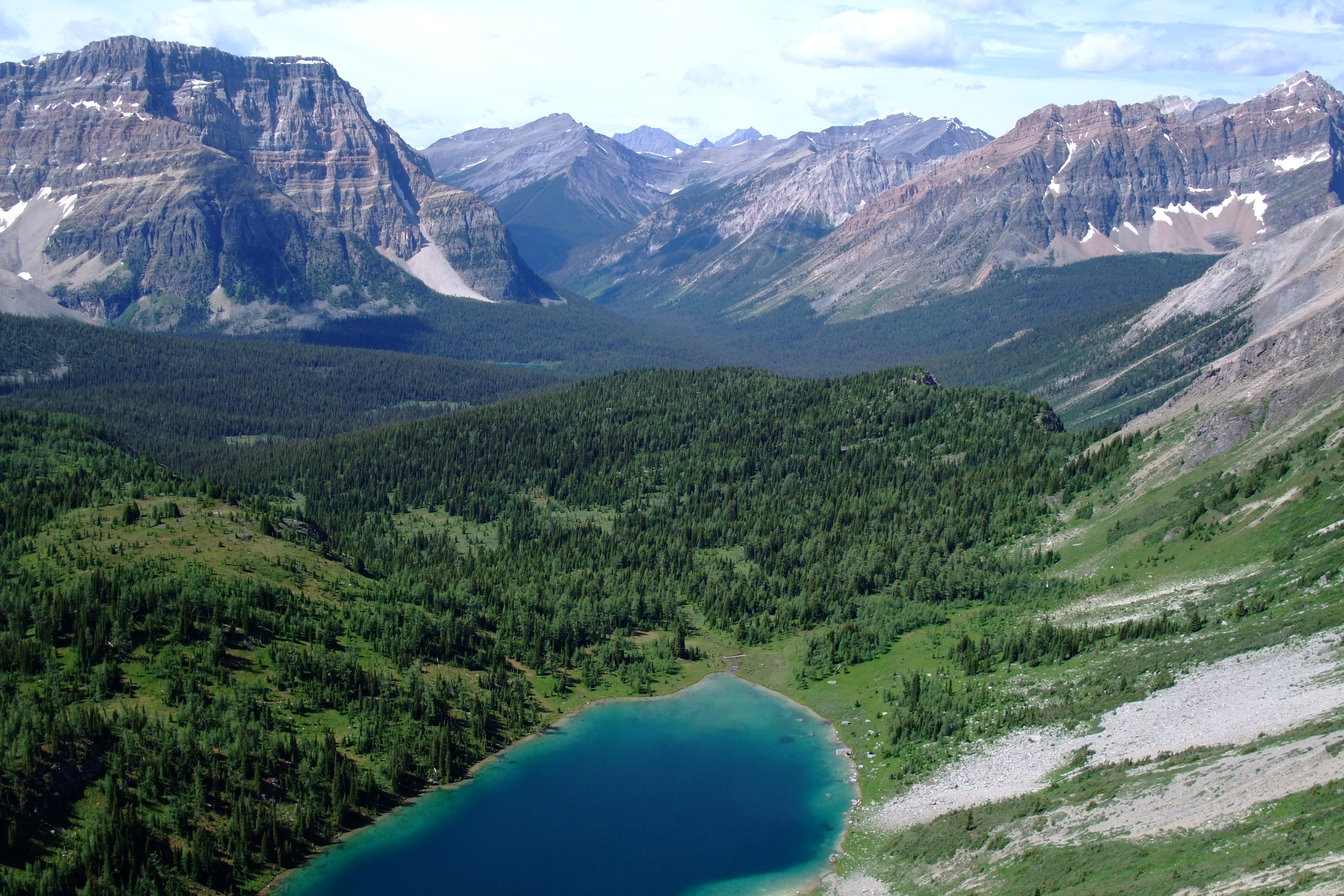 Elizabeth Lake with Sunburst Valley, seen from "The Nublet". The mountain on the left side is Mount Watson, in front of it Wedgwood Lake can be seen. Mitchell River Valley leads to the Kootenay.